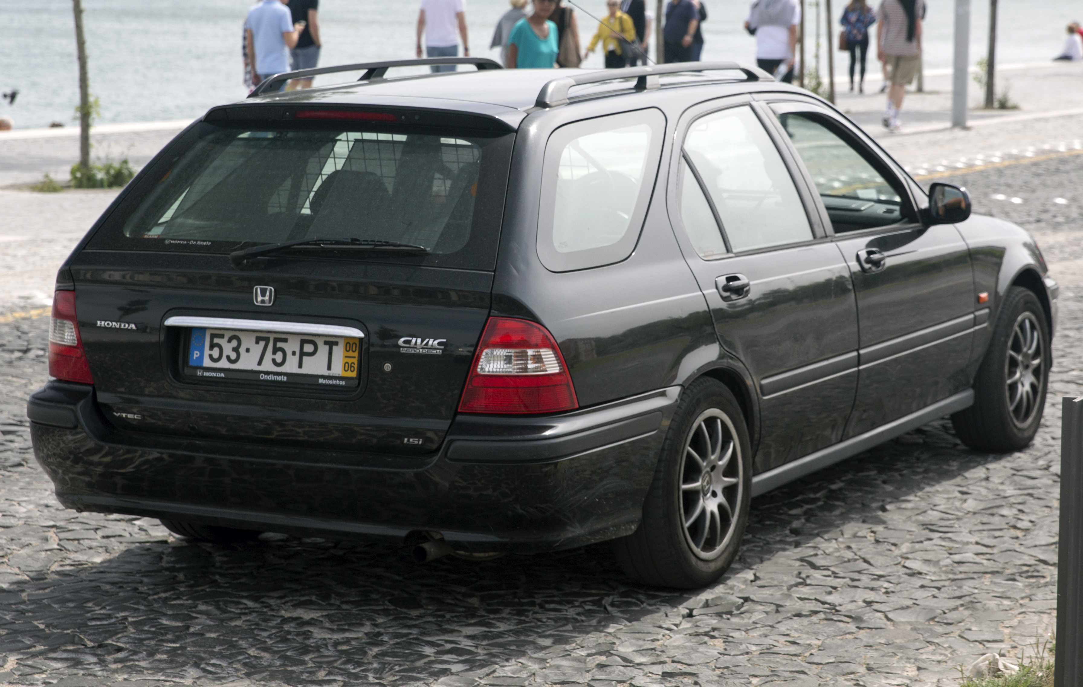 A 2000 Honda Civic Aerodeck 1.5i VTEC in Lisbon, Portugal.